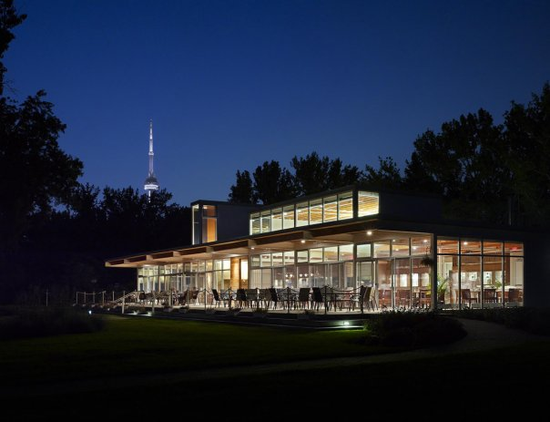 IYC Clubhouse at Night.